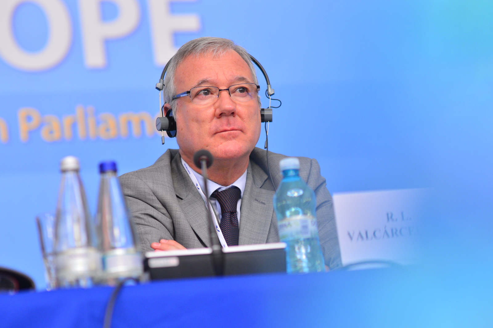 EPP_Congress_2236